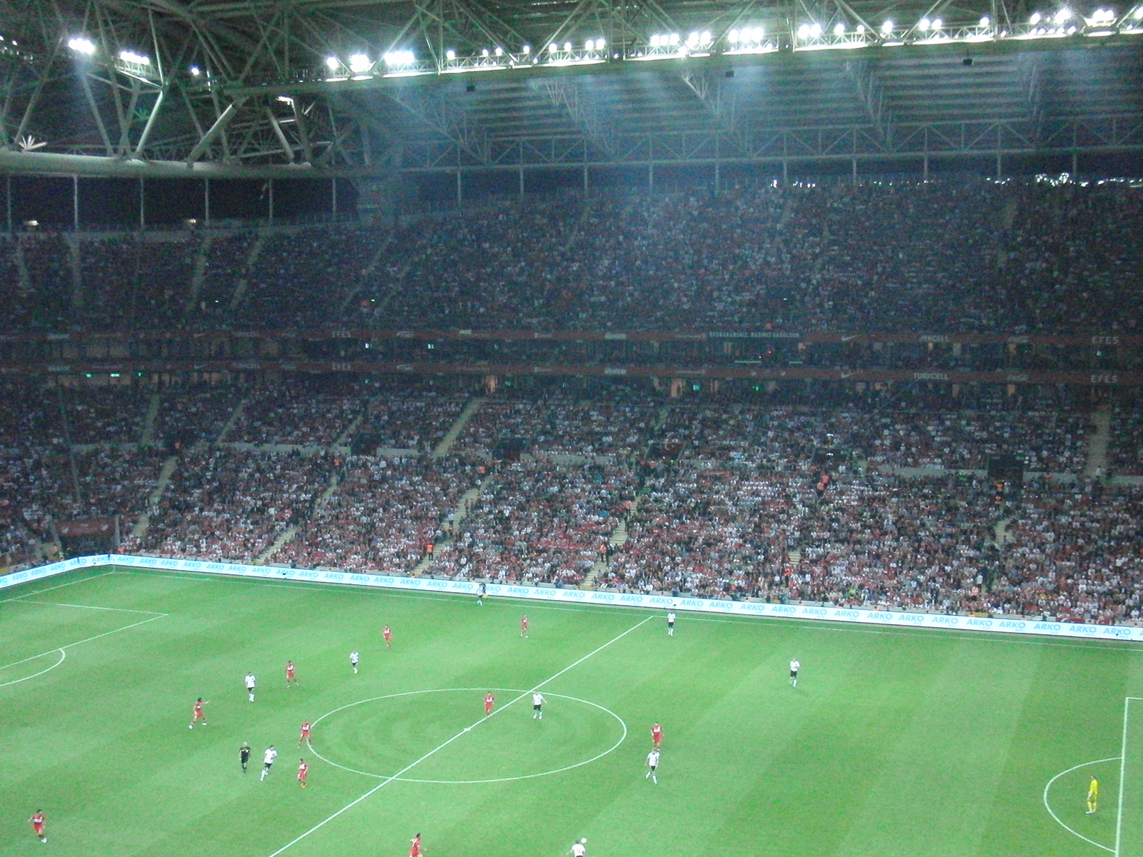 ttarena_gs3